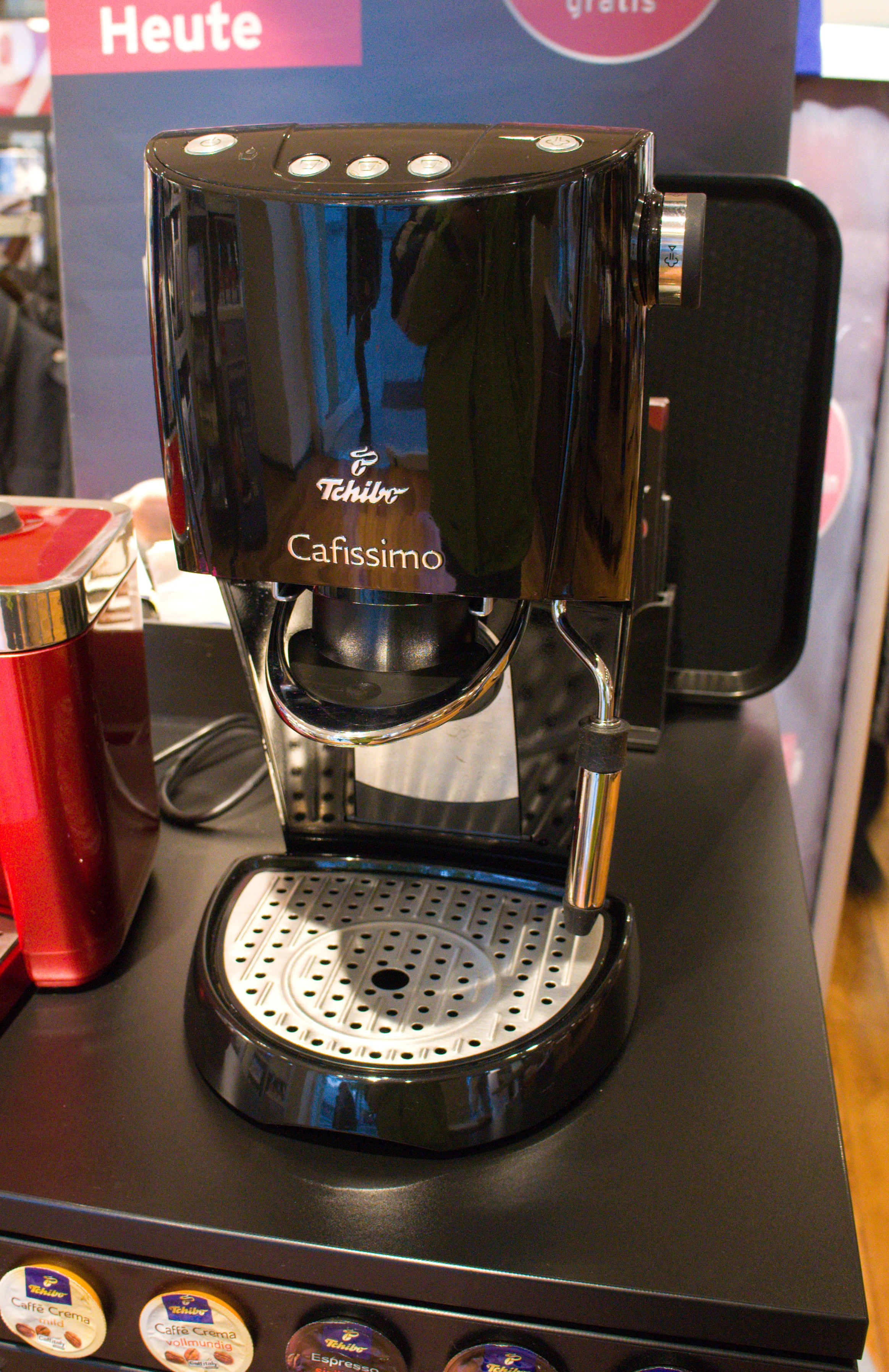 Kavamat "Cafissimo" by Tchibo in Goeppingen, Germany.